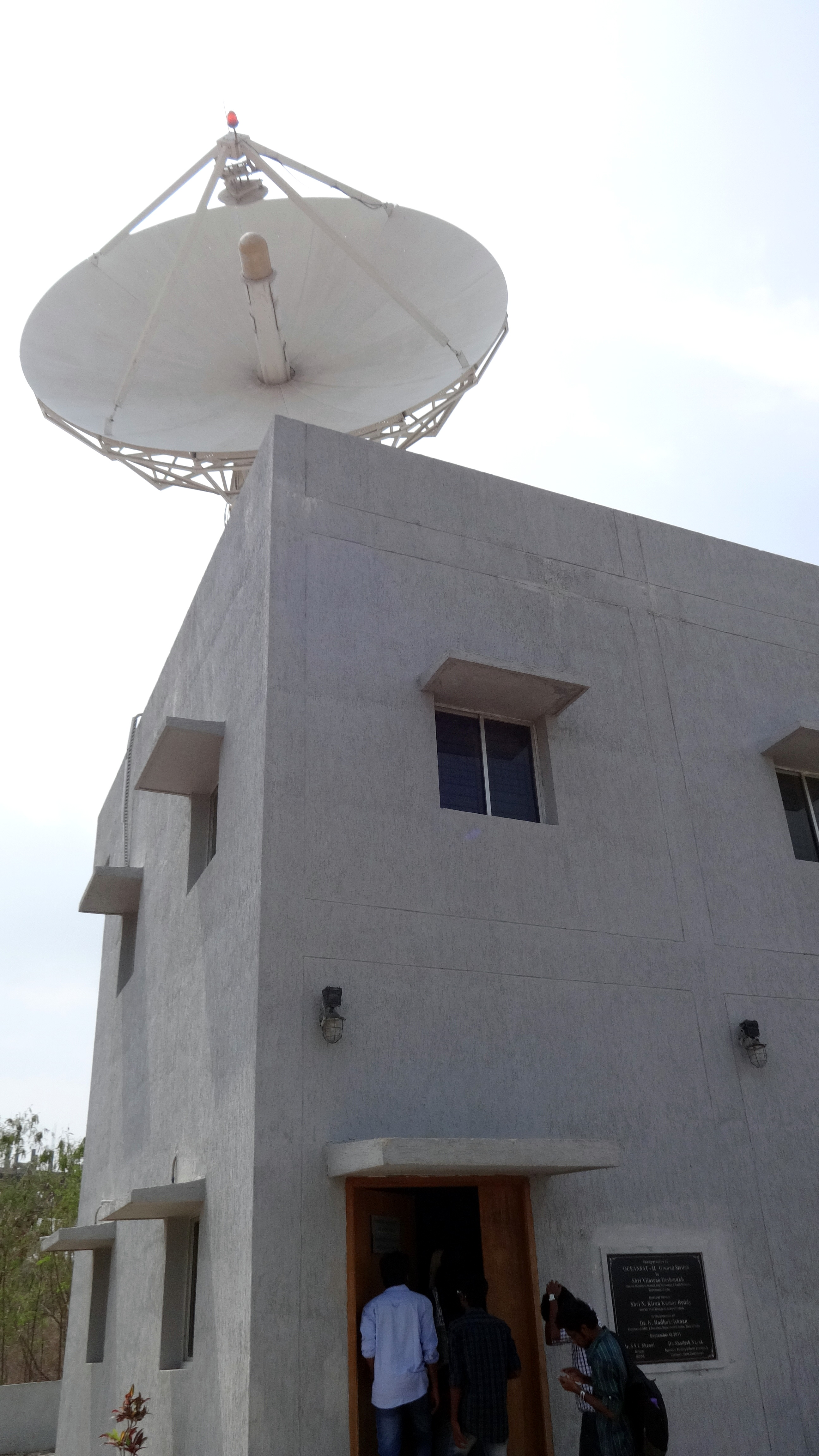 OCEANSAT-II Ground station in INCOIS, Hyderabad, India